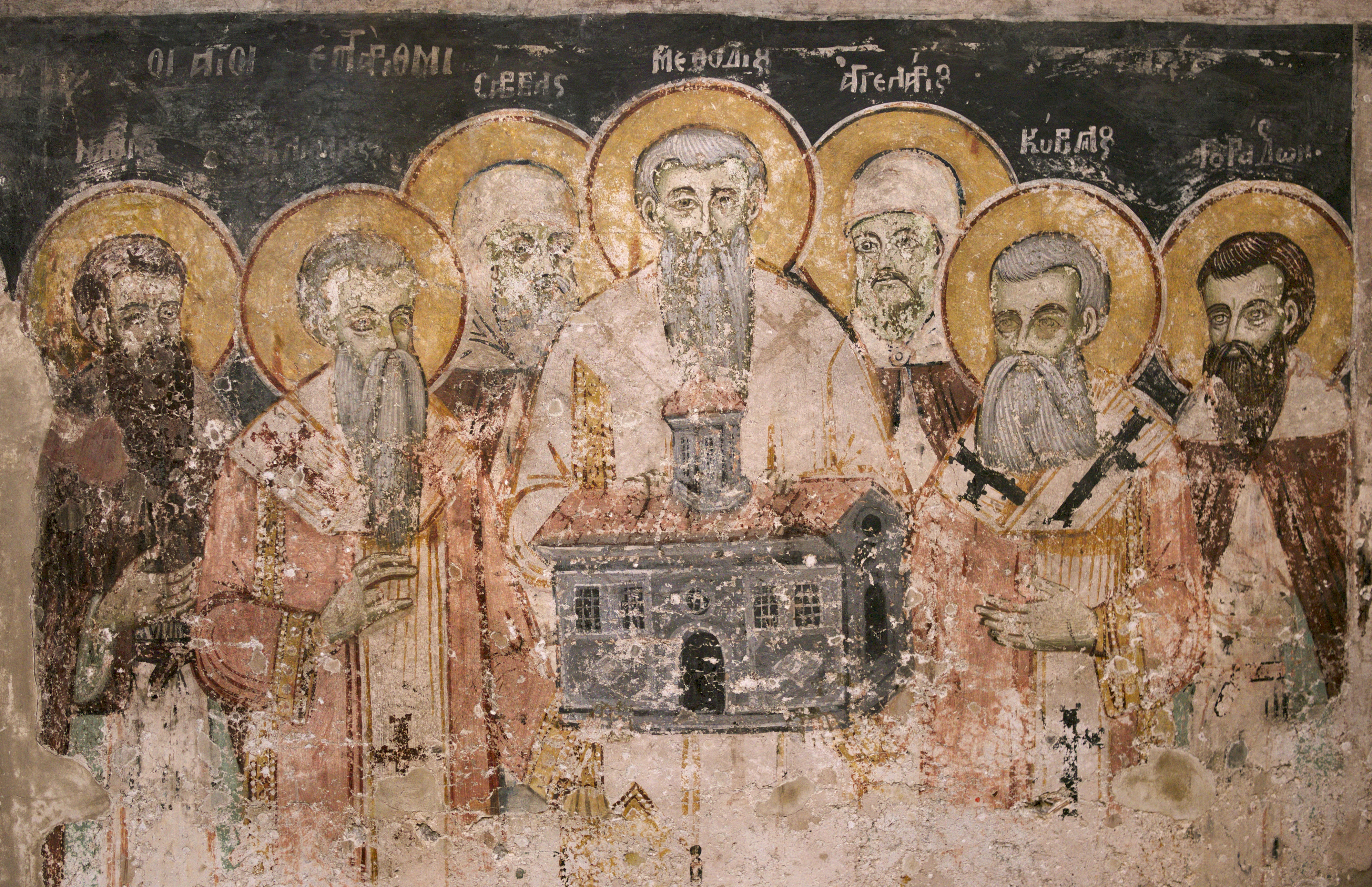 Sedmočislenici (i.e. Seven Saints) is the common name for 7 saints honored in several southeast European Orthodox Churches as the creators and distributors of the Cyrillic and Glagolitic alphabet. From left: St. Naum, St. Clement, St. Sava, St. Methodius, St. Angelarius, St. Cyril, St. Gorazd. Fresco in Narthex of St. Naum Monastery, from the year 1800, Macedonia Српски (ћирилица): Седмочисленици, 7 учитеља коју су Словенима донели глаголски језик и цирилицу. Св Наум, Св Климент, Св Сава, Св Методиј, Св Ангелариј, Св Ћирило и Св Горазд. Фреска је део нартекса у манастиру Св Наум, Македонија. Цртано 1800. годние. This photograph was taken with a Panasonic Lumix DMC-G85/G80